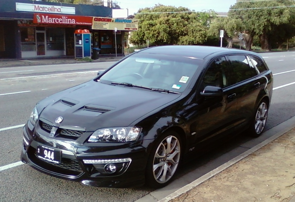 HSV E Series Clubsport R8 Tourer